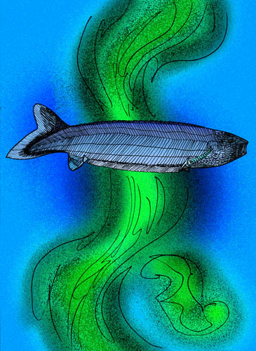 Reconstruction of the European anaspid, Pharyngolepis oblonga, of the Late Silurian